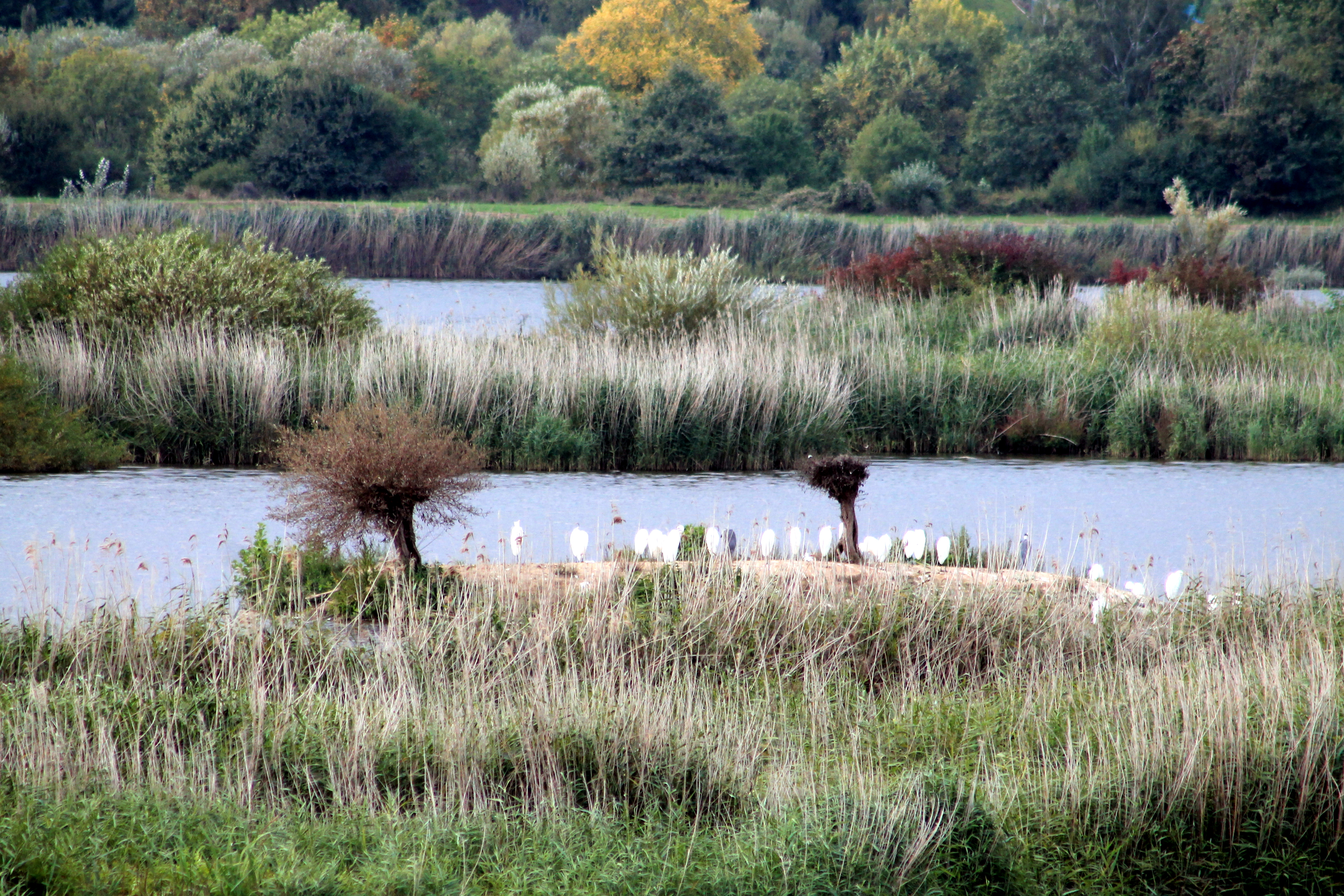 bird sanctuary Garstadt, Franconia, Bavaria